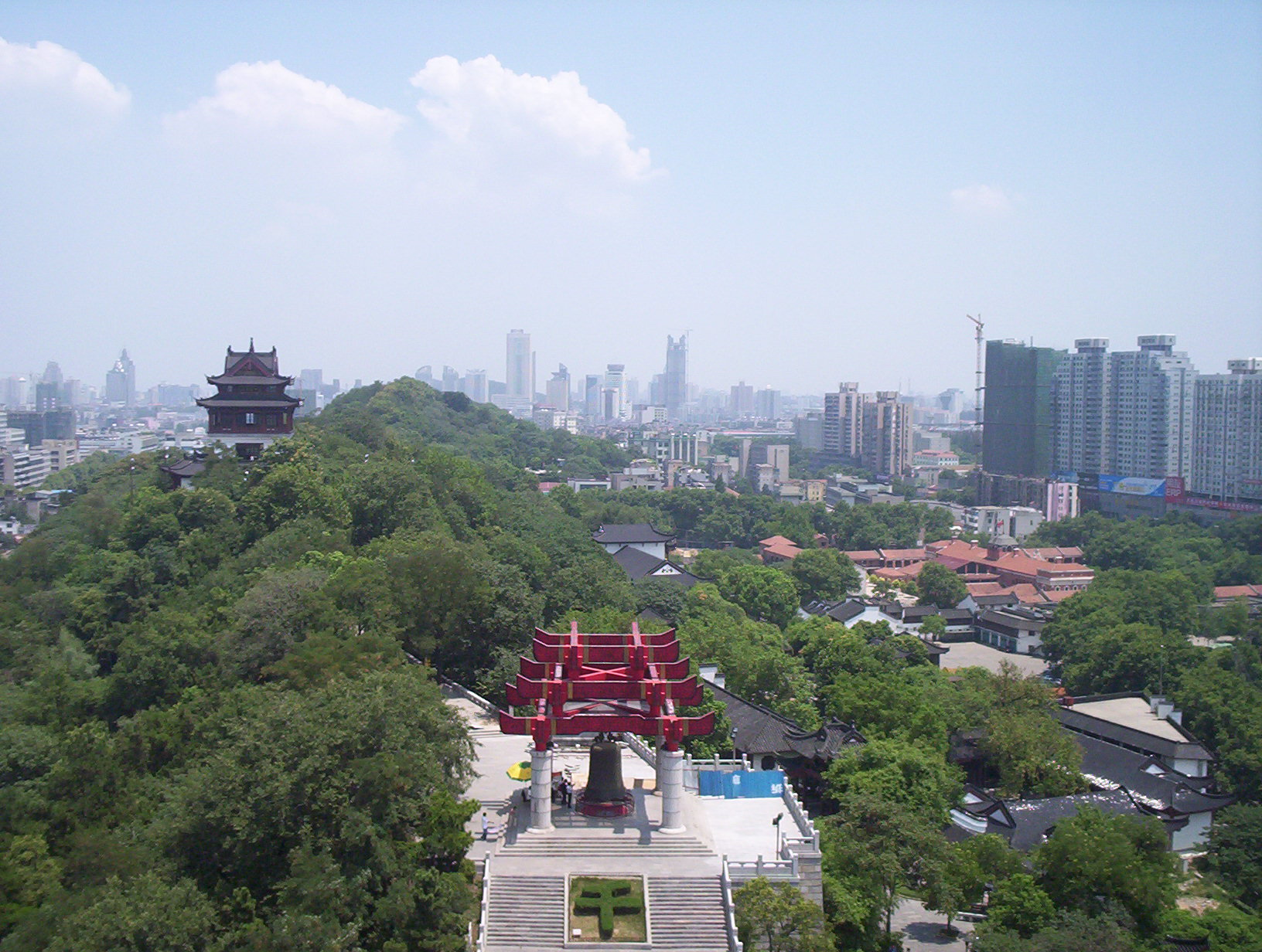 Wuhan, as viewed from the Yellow Crane Tower